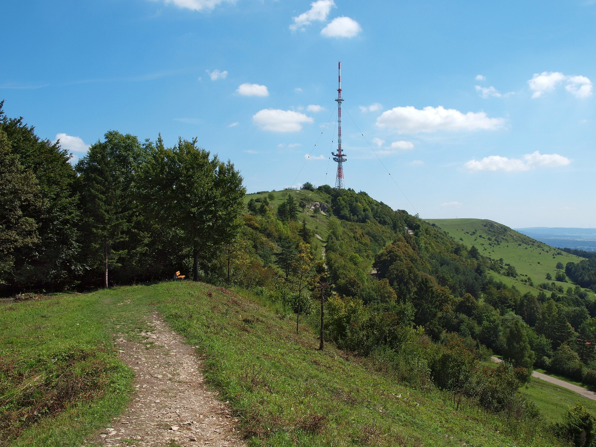 On top of the Hesselberg, Germany